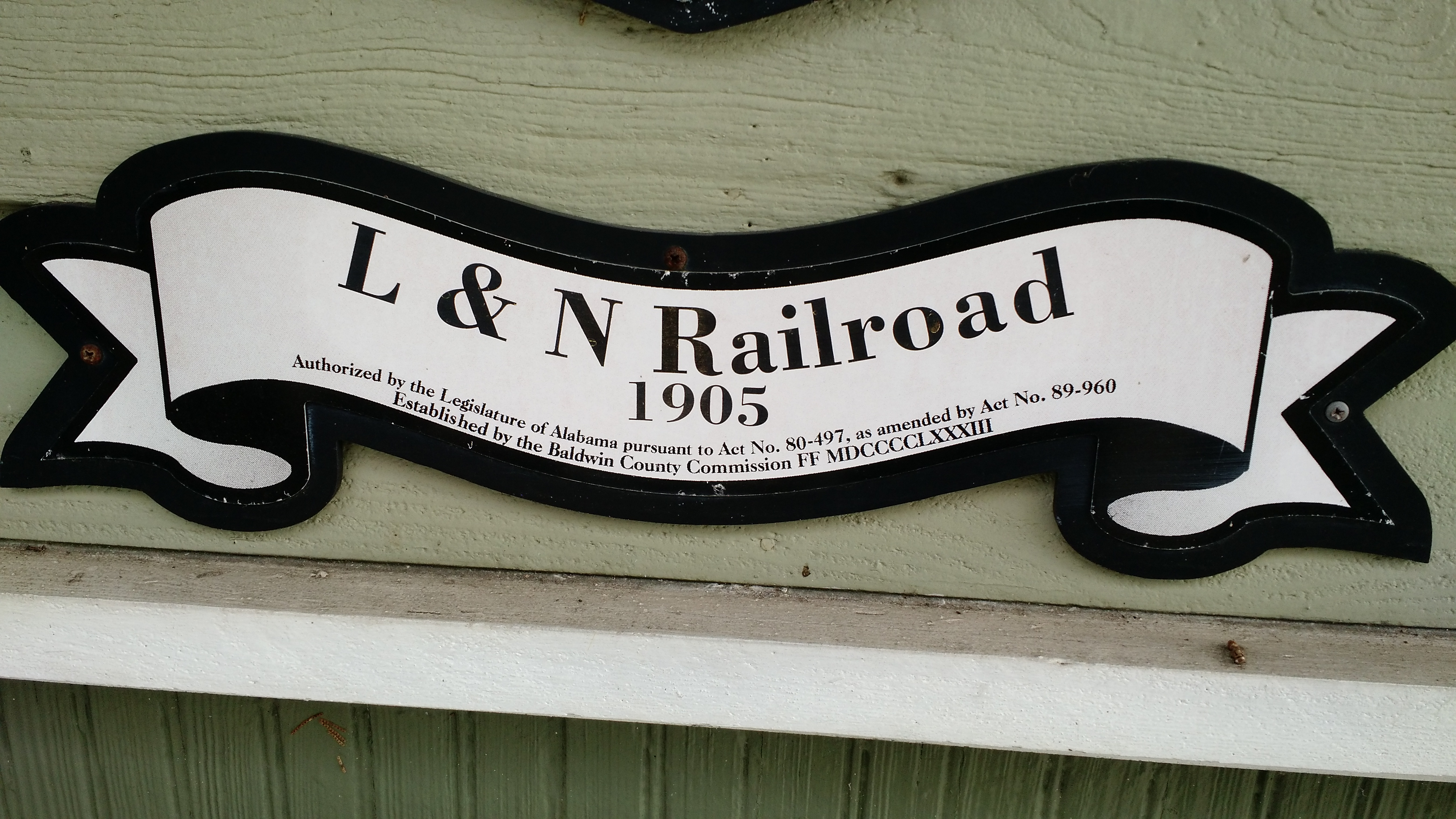 Foley, Alabama Railroad Depot historic marker. This is the banner with the date and name, set by the Baldwin County Historic Commission.